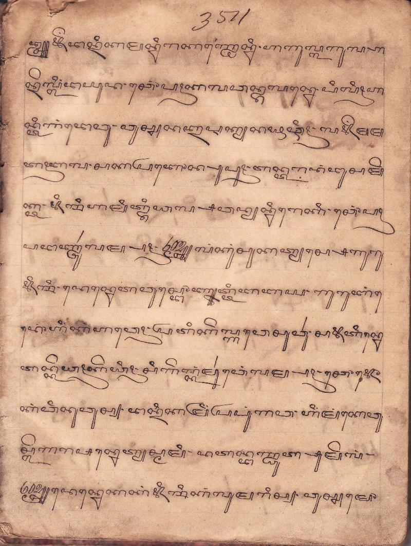 Translation of "Romance of Three Kingdoms" (三國演義) in Javanese script, here transcribed as "Sam Kok" from Hokkien pronunciation "Sam-kok-ián-gī".